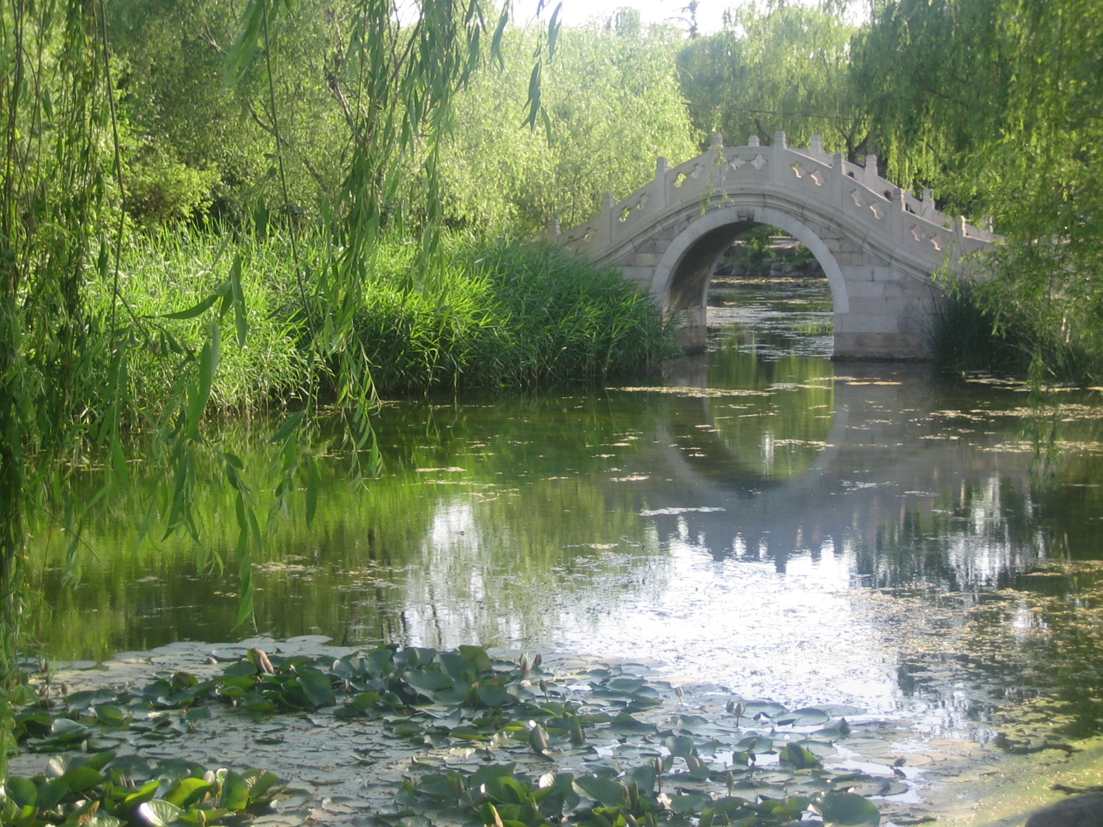 The Tsinghua University campus in Beijing